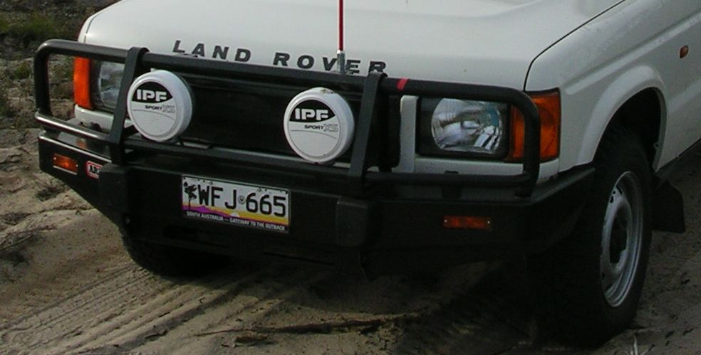 An ARB Bullbar on a Land Rover Discovery 2 with spotlights and a sand flag attached. Photograph taken by me, Cameron, on 2004-11-3 at 3:52:26 PM GMT+10:30 on the Border Track (track along the border between South Australia and Victoria).